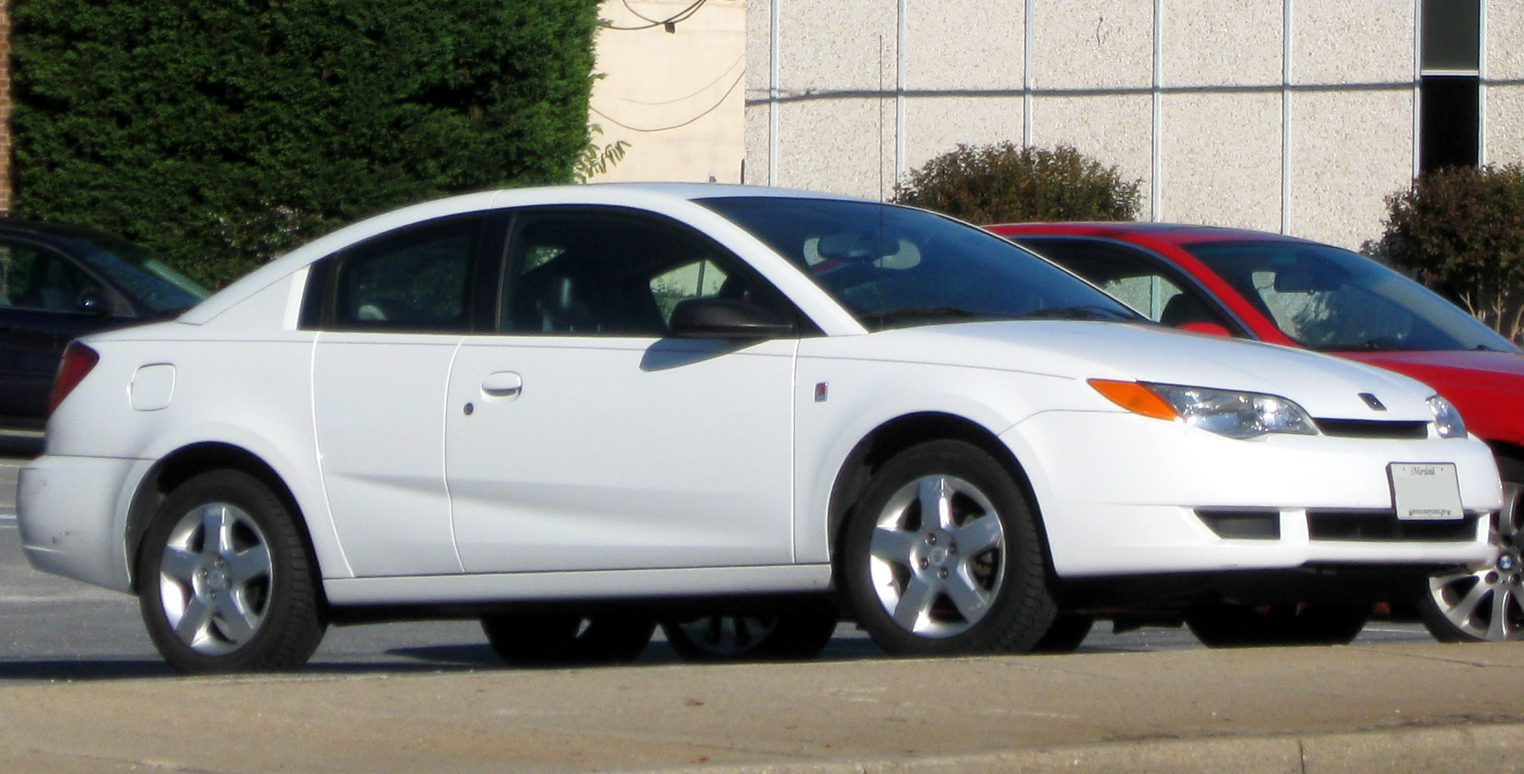 Saturn Ion photographed in Kensington, Maryland, USA.